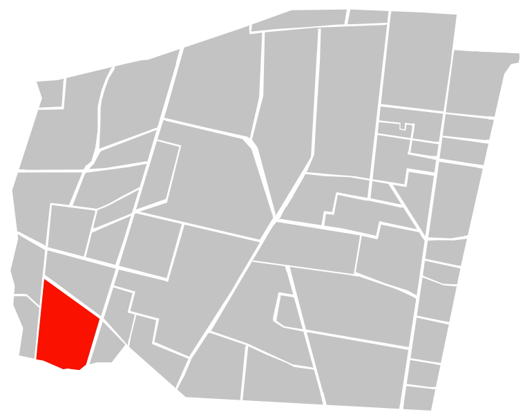 Map of Delegación Benito Juárez in Mexico City, with San José Insurgentes highlighted in red